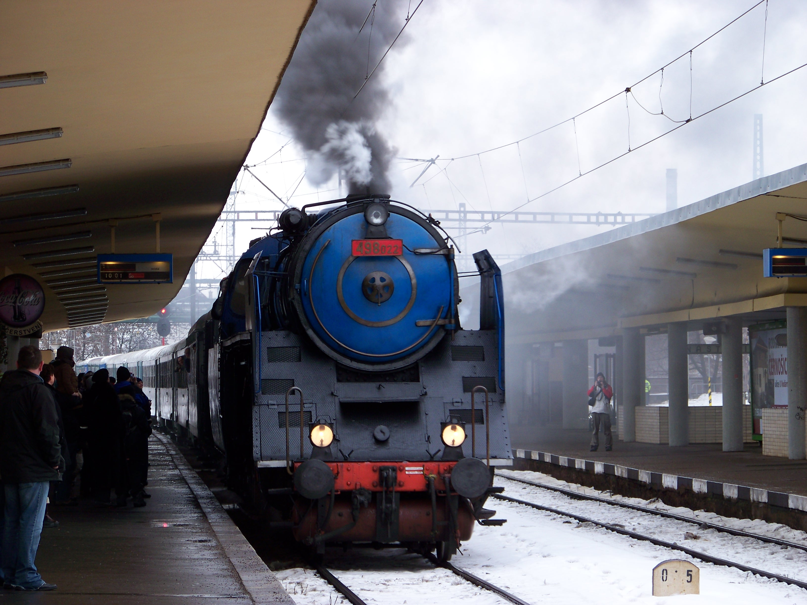 Prague-Smíchov, the Czech Republic. Praha-Smíchov train station, Křivoklát expres, a heritage train.